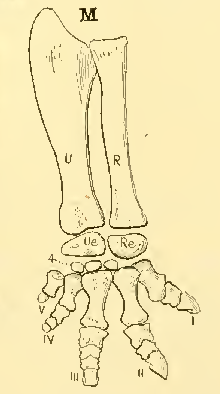 An illustration from The Osteology of the Reptiles